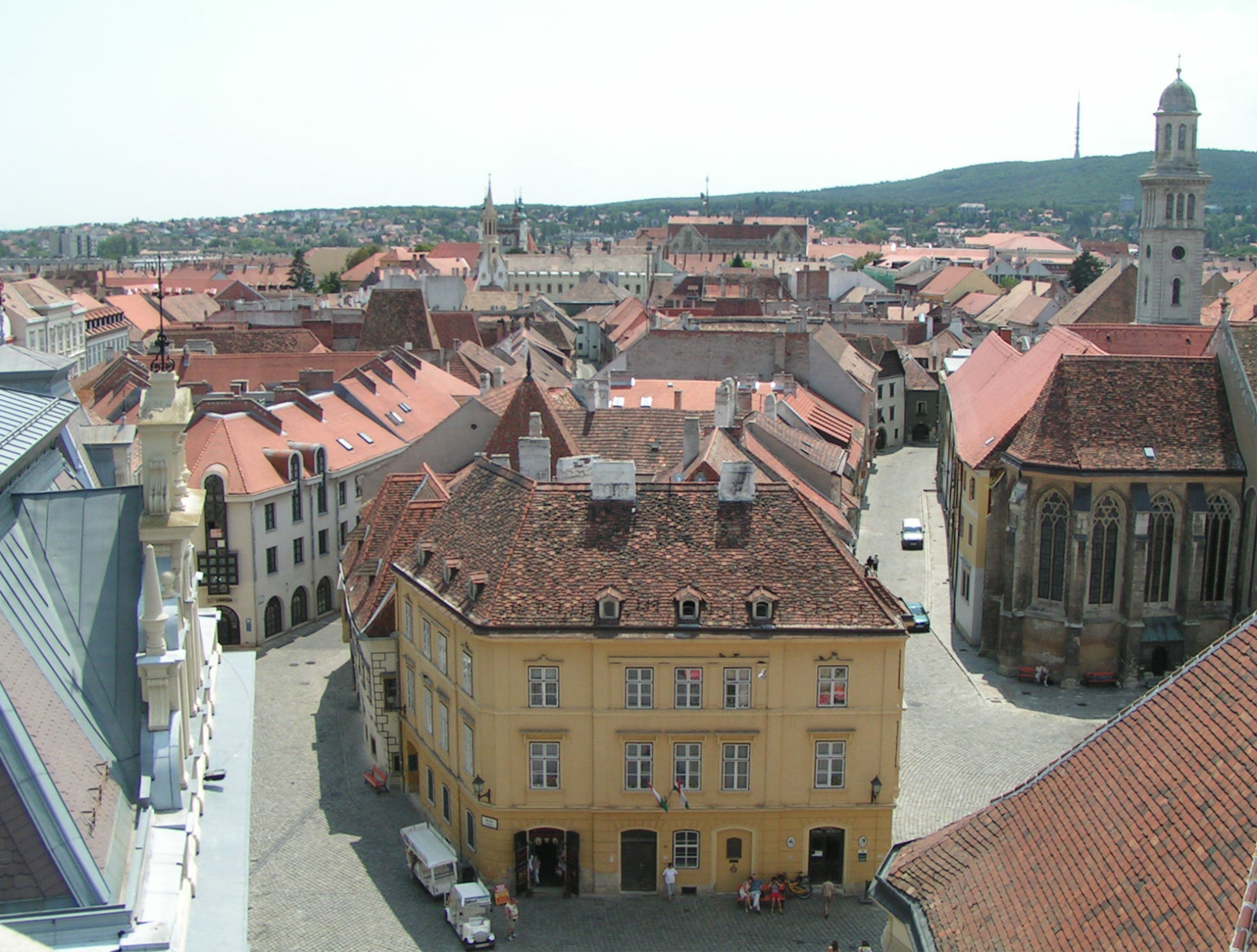 Sopron: View from the Fire Tower